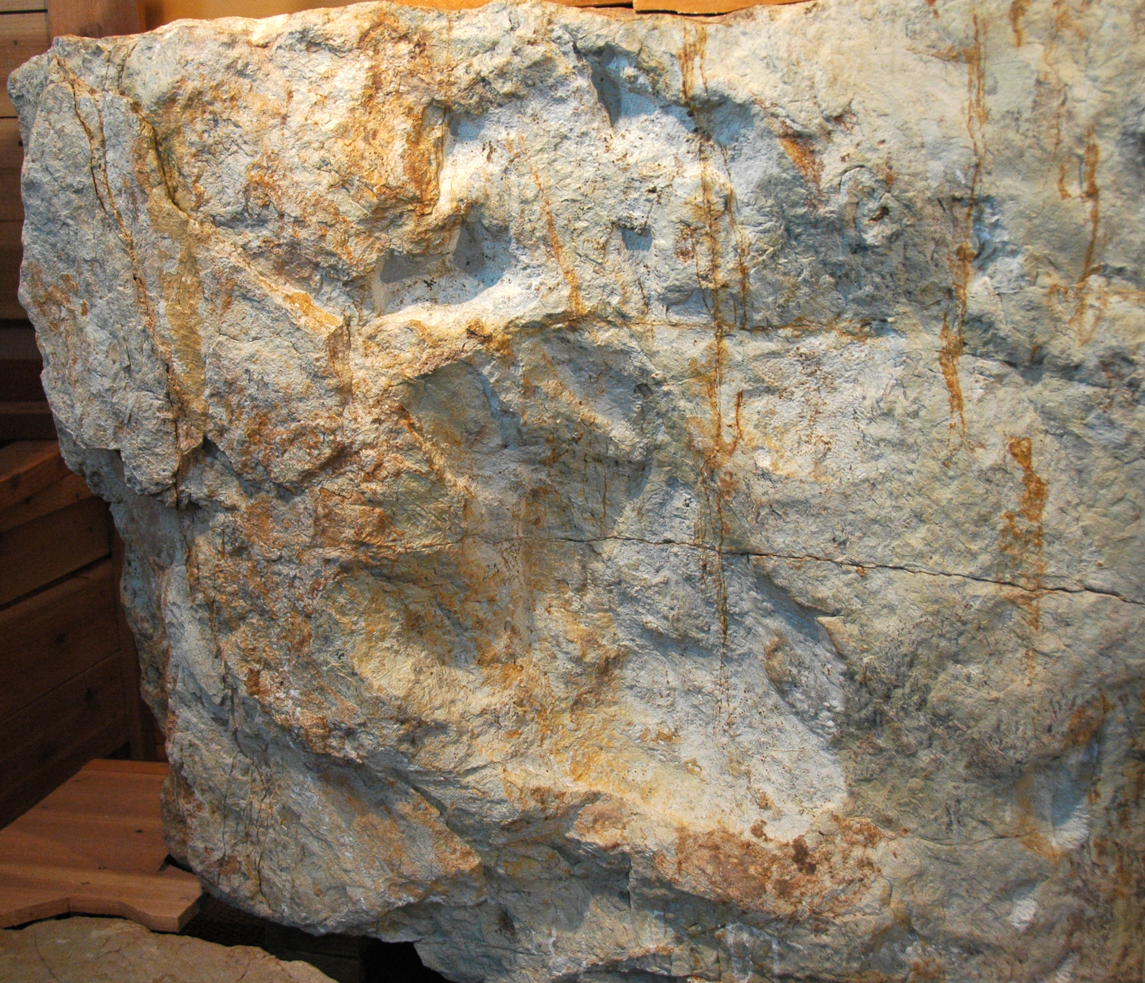 Stegosaurus dinosaur footprints in fluvial sandstone from the Jurassic of Colorado, USA (public display, Morrison Natural History Museum, Morrison, Colorado, USA). This sandstone block has the world's finest examples of Stegosaurus dinosaur tracks. The large footprint near & below the center is an adult hind print. This track is artificially elongated - The large depression immediately adjacent to the three toe impressions is the foot itself - the area extending toward the lower right is a slide mark (slip mark). Stegosaurus was a rump-heavy animal, so it was occasionally prone to slipping on wet sediments. The crescent-shaped series of shadowed depressions above the middle and right toes of the hind print is a forefoot track. A juvenile Stegosaurus track occurs between these two adult prints (just above & to the right of the hind print's right toe). Stratigraphy: Morrison Formation, Upper Jurassic Locality: Quarry 5, Dinosaur Ridge, west of Denver, north-central Colorado, USA Trace fossils are any indirect evidence of ancient life. They refer to features in rocks that do not represent parts of the body of a once-living organism. Traces include footprints, tracks, trails, burrows, borings, and bitemarks. Body fossils provide information about the morphology of ancient organisms, while trace fossils provide information about the behavior of ancient life forms. Interpreting trace fossils and determination of the identity of a trace maker can be straightforward (for example, a dinosaur footprint represents walking behavior) or not. Sediments that have trace fossils are said to be bioturbated. Burrowed textures in sedimentary rocks are referred to as bioturbation. Trace fossils have scientific names assigned to them, in the same style & manner as living organisms or body fossils.